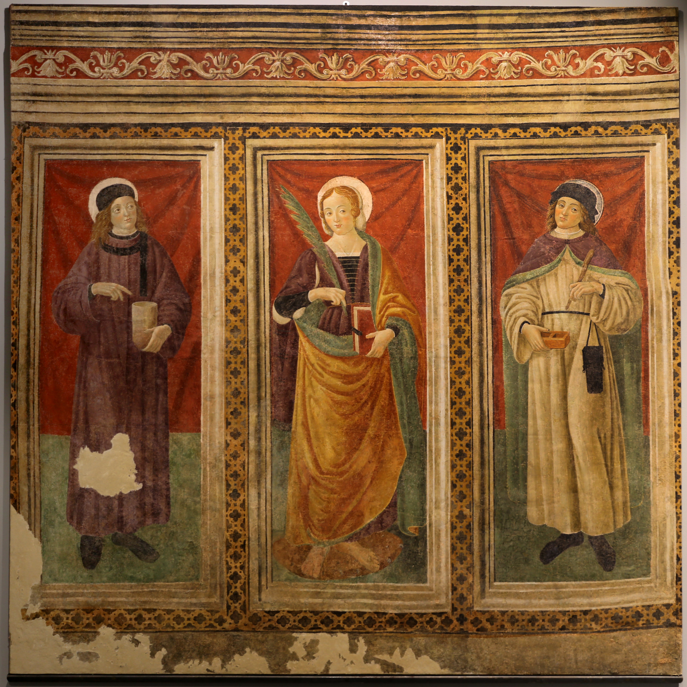 Paintings in the Museo nazionale d'Abruzzo